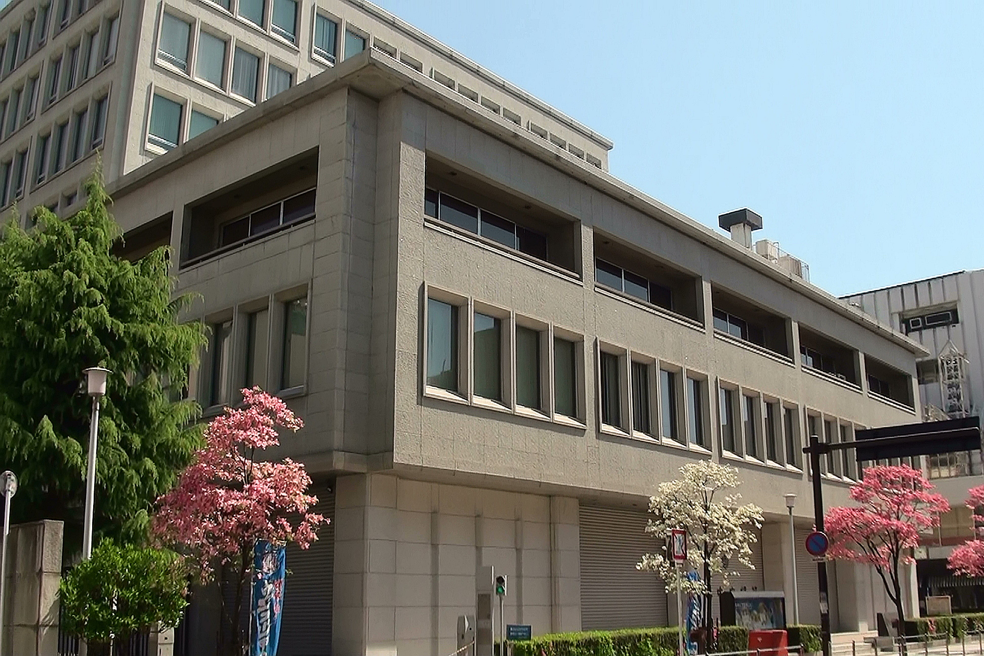 Yamanashi Chuo Bank head office